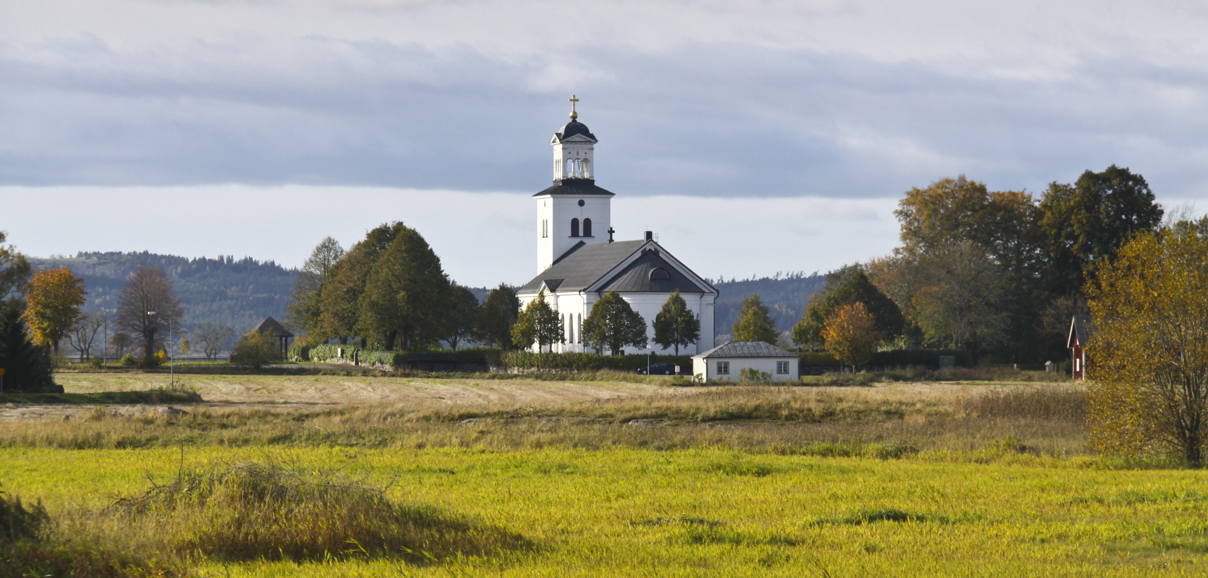 Rök church, Östergötland, Sweden